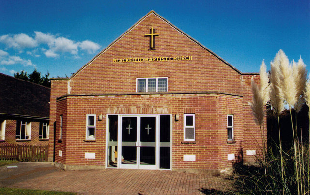 Blackfield Baptist Church Built in 1831.